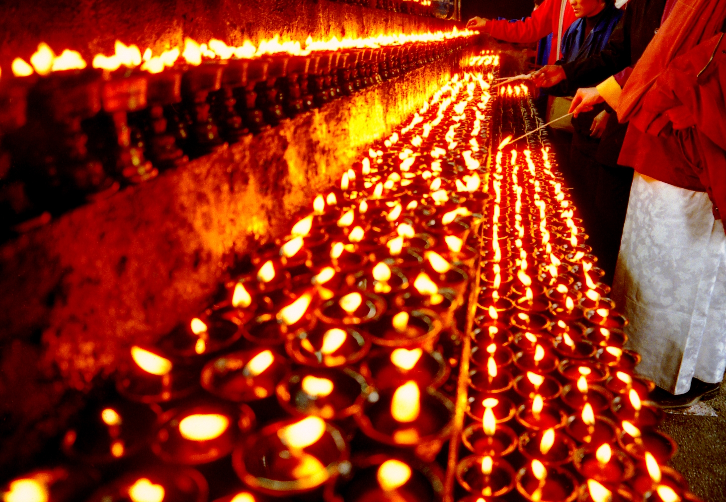 Light butter lamps